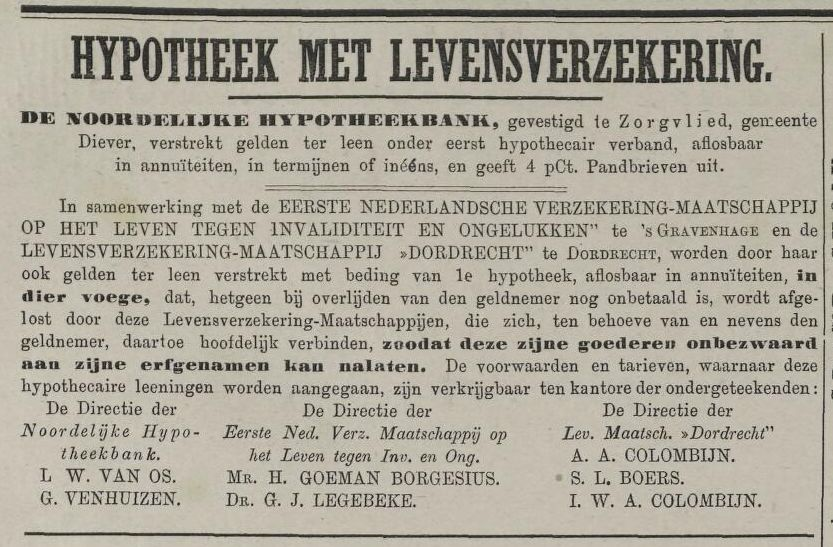 Advertentie voor hypotheek met levensverzekering, 1889, vermelde Gerrit Jan Legebeke als directielid.